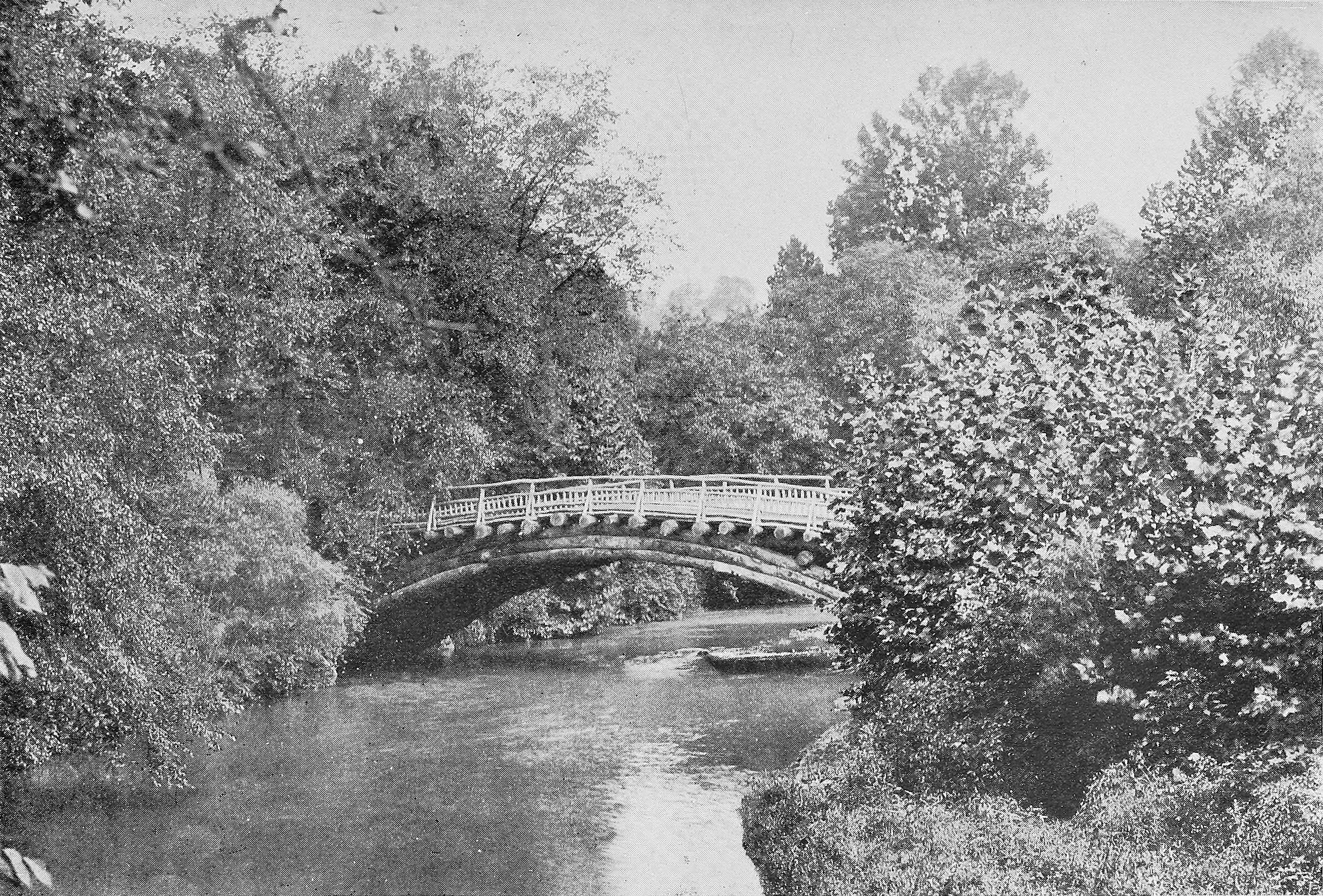 National Zoological Park, Washington, D.C. Title: Annual report of the Board of Regents of the Smithsonian Institution Year: 1846 (1840s) Authors: Smithsonian Institution. Board of Regents; United States National Museum. Report of the U. S. National Museum; Smithsonian Institution. Report of the Secretary Subjects: Smithsonian Institution; Smithsonian Institution. Archives; Discoveries in science Publisher: Washington : Smithsonian Institution Text Appearing Before Image: ' Text Appearing After Image: '